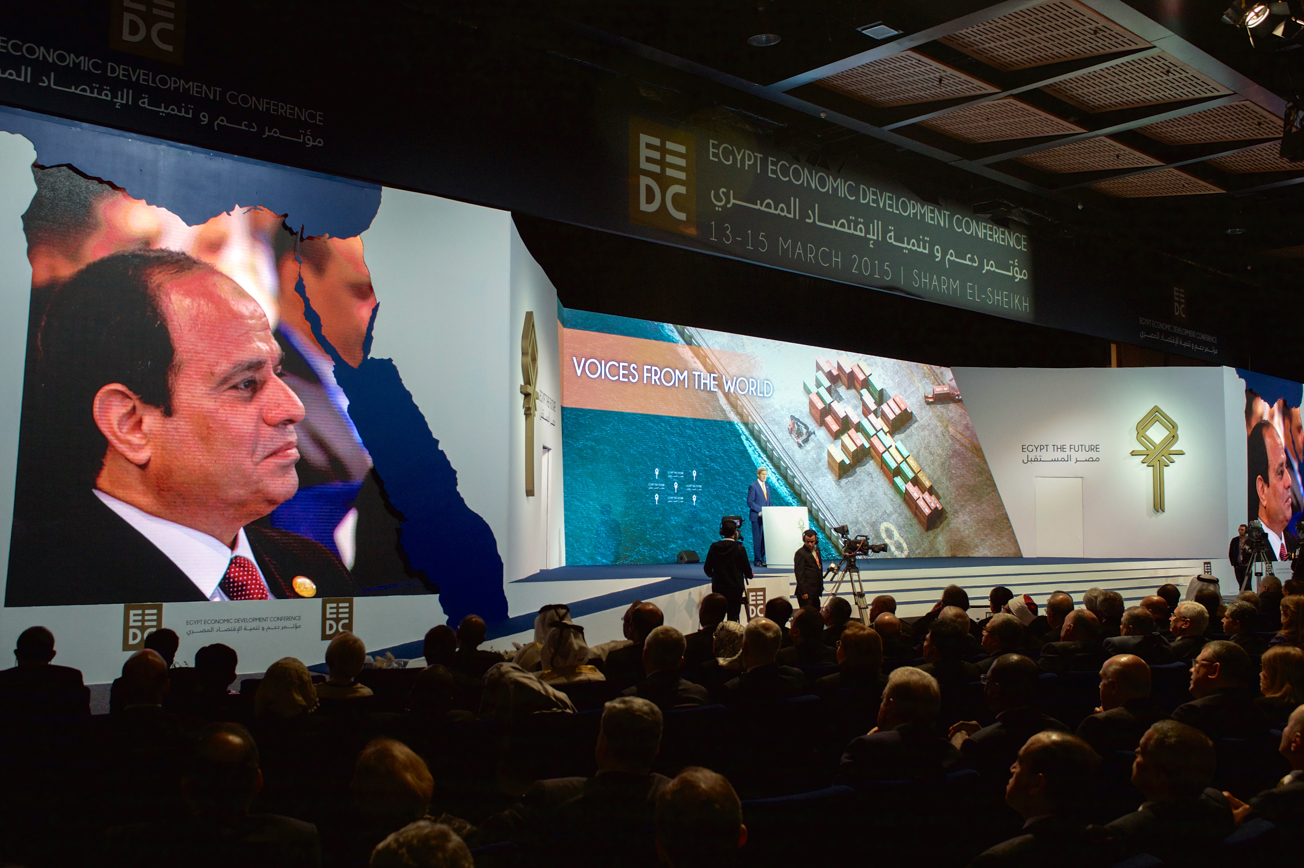 Egyptian President Abdel Fattah al-Sisi is seen on a big-screen monitor listening as U.S. Secretary of State John Kerry delivers remarks to an international audience of several thousand attending an Egyptian development conference at the Congress Center in Sharm el-Sheikh, Egypt, on March 13, 2015. [State Department photo/ Public Domain]